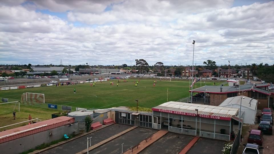 Sunshine George Cross take on Bulleen Lions at Chaplin Reserve in 2015.